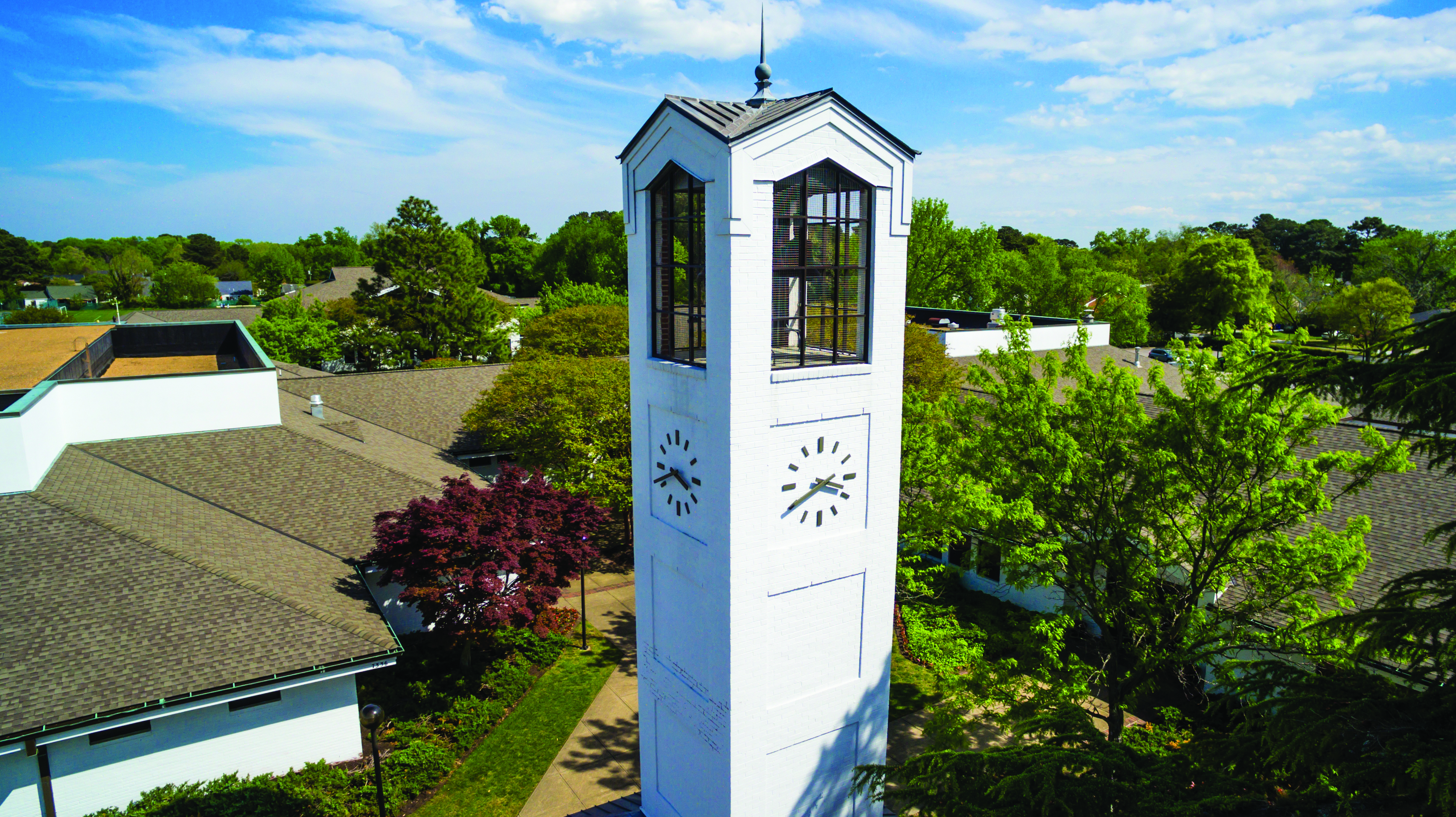 The Scribner Belltower stands outside of the entrance to the middle and upper school campus on Granby Street. The belltower chimes daily on the hour. It was a gift to the school from the late Mr. Kenneth Scribner in honor of his late wife.